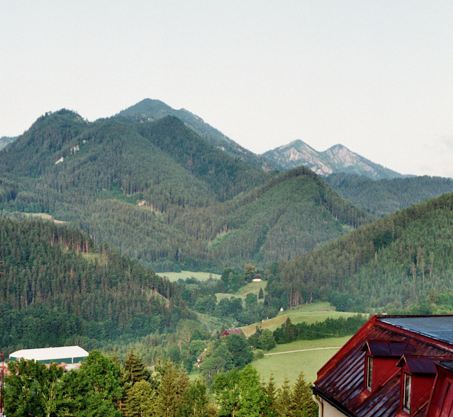 View from Mariazell to the Zellerhüte, right the Großer Zellerhut